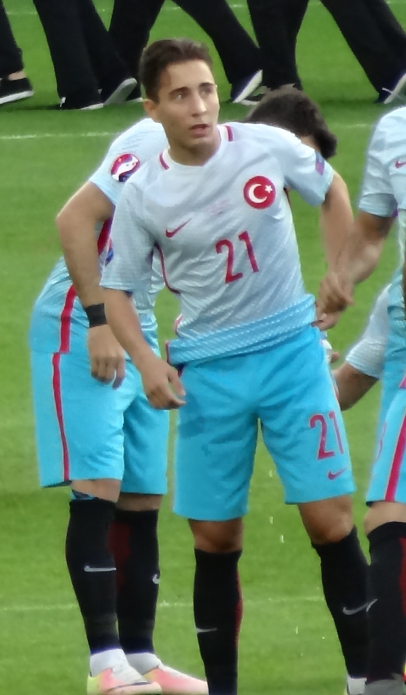 Emre Mor (Euro 2016)